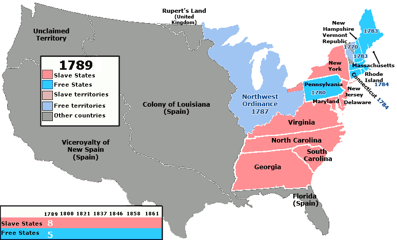 Map of the states and territories of the United States as it was from March 1789 to August 1789 showing which areas of the United States did and did not allow slavery. Territories and states which had not specifically banned slavery are colored red/pink.